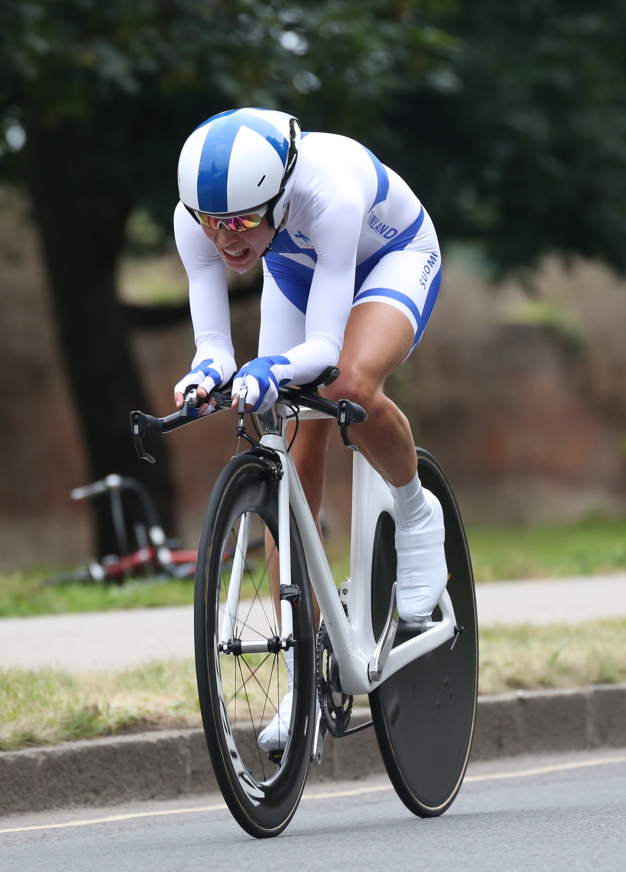 Pia Sundstedt competing in the London 2012 Women's Olympic Time Trial.